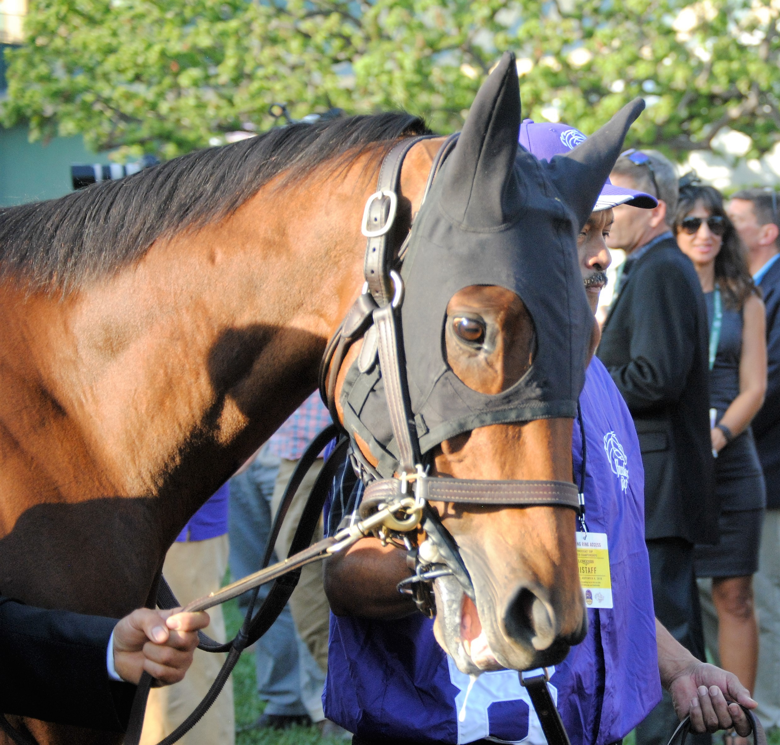 Beholder on her way to the saddle enclosure for the 2016 Breeders' Cup Distaff, wearing a hood to help block out sights and sounds to keep her calm. It worked!